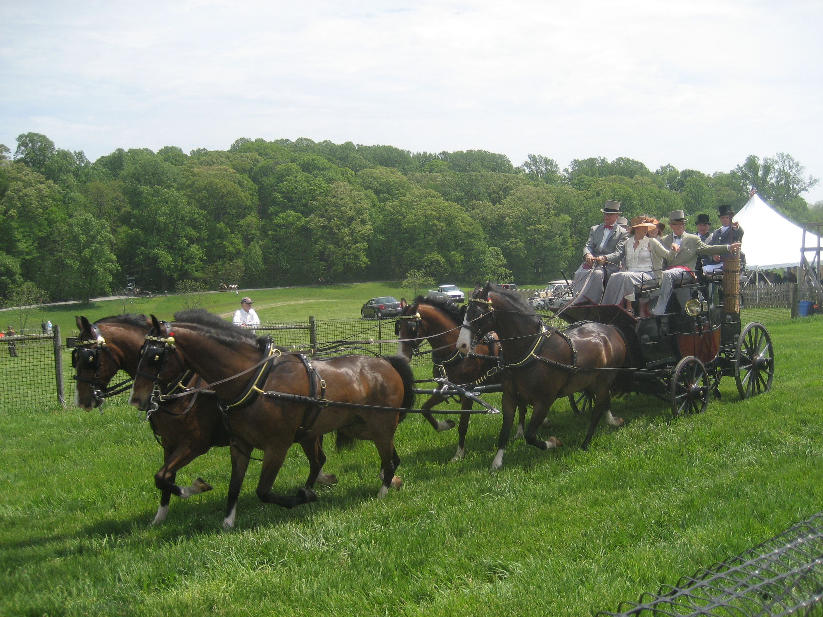 Frolic Weymouth leading the carriage parade at Wintherthur Museums annual Point-to-Point.